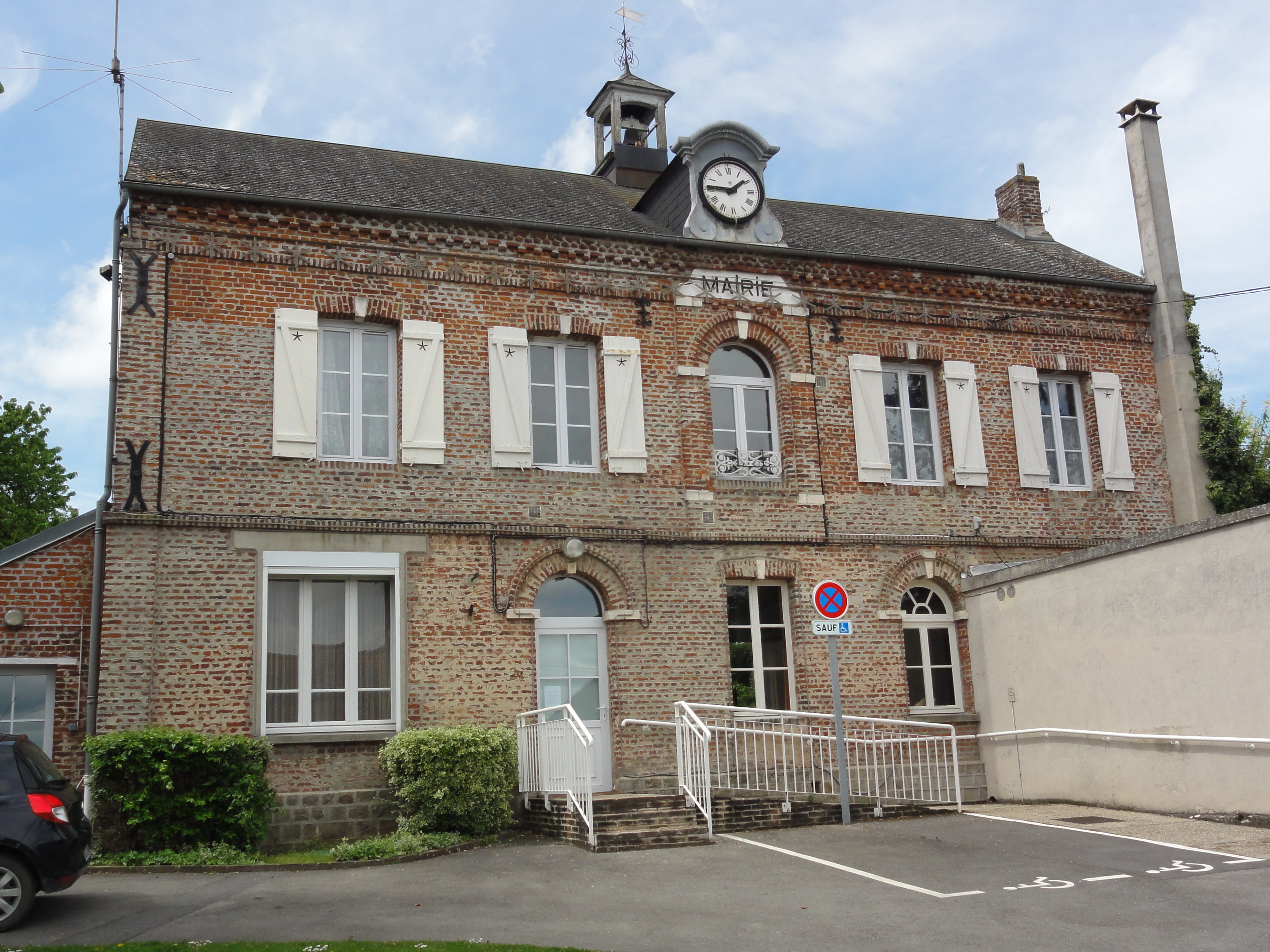 Pouilly-sur-Serre (Aisne) mairie